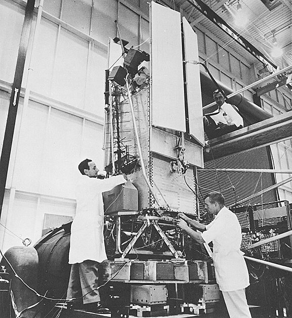 Preparation of OGO satellite to vibration test.